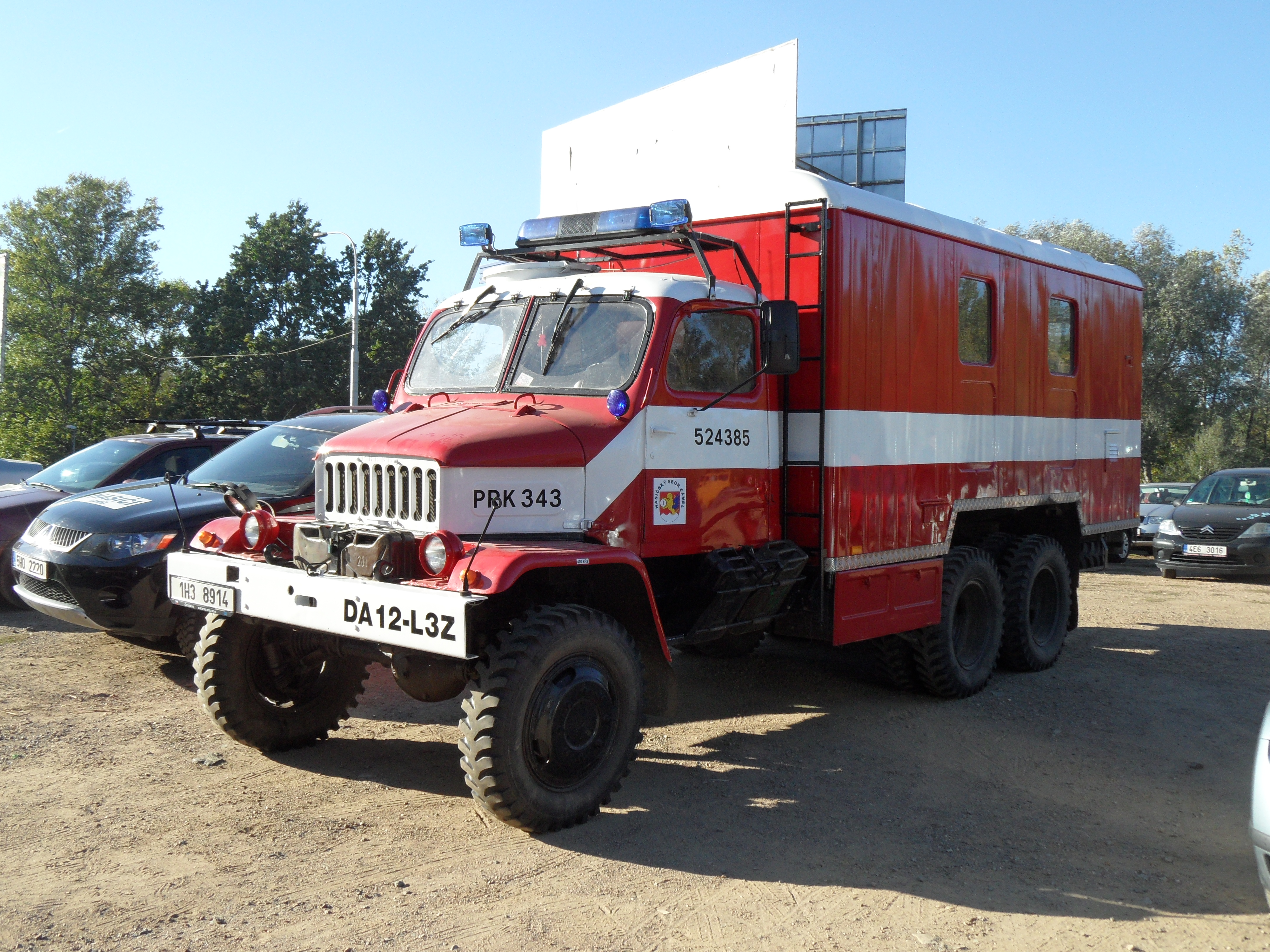 Retro City. Friday: Static Presentations. B01. Praga V3S for Fire Fighters. Pardubice, Pardubice District, the Czech Republic.